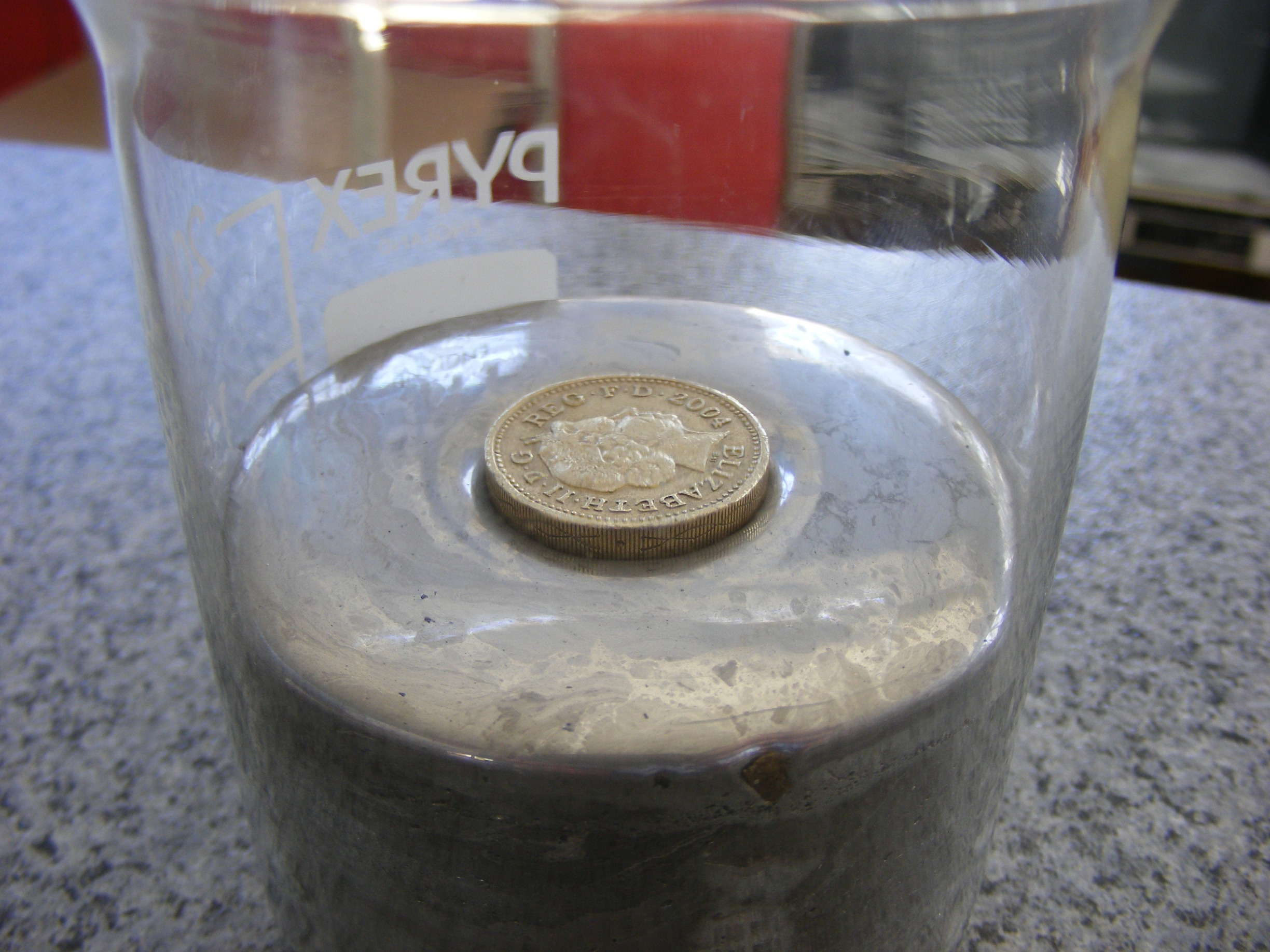 A pound coin floating in mercury due to surface tension, see Gerridae.